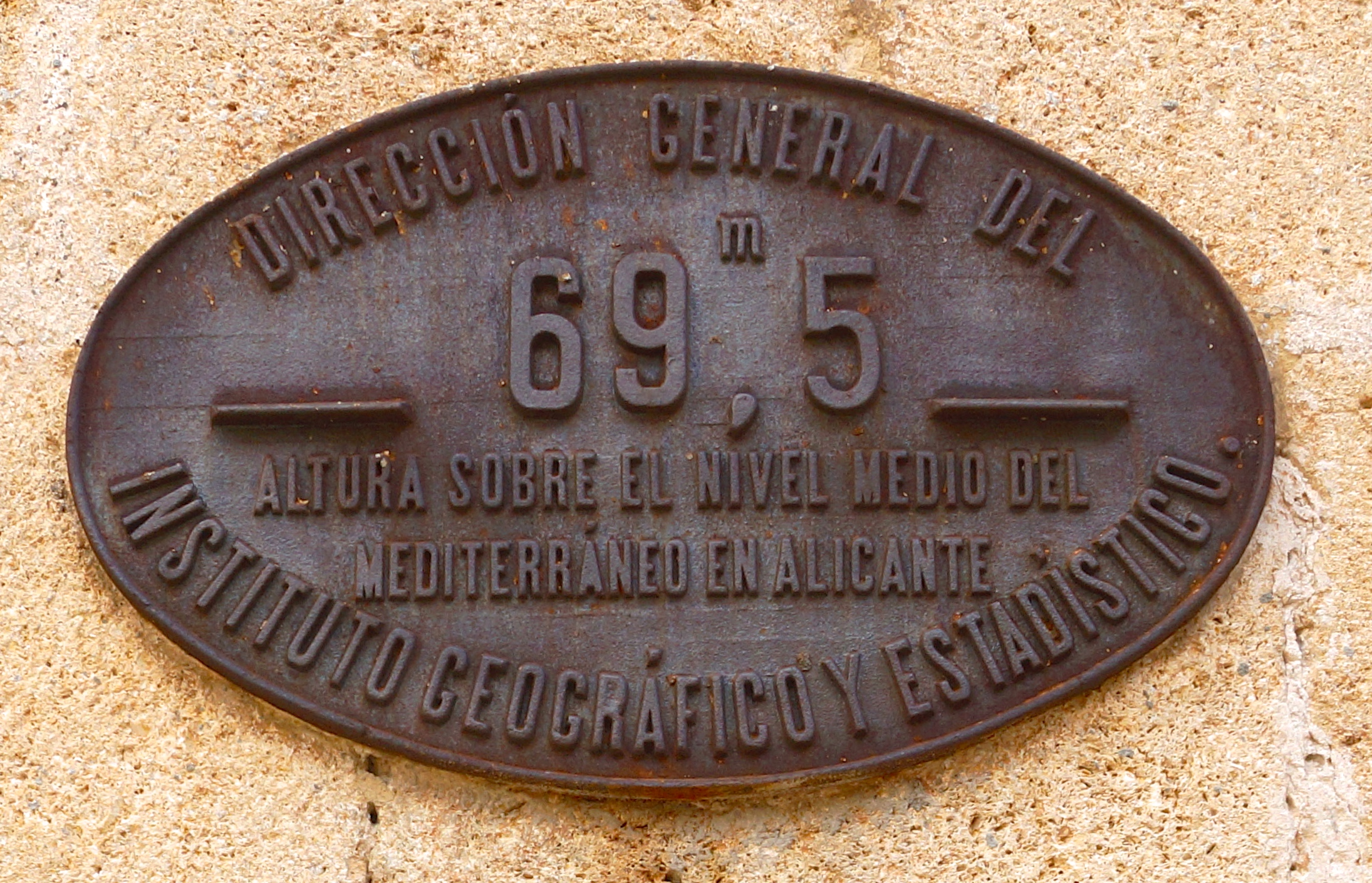 Tarragona, Catalonia: Geodesic hight sign of the Cathedral compared to the main sea level in Alacant